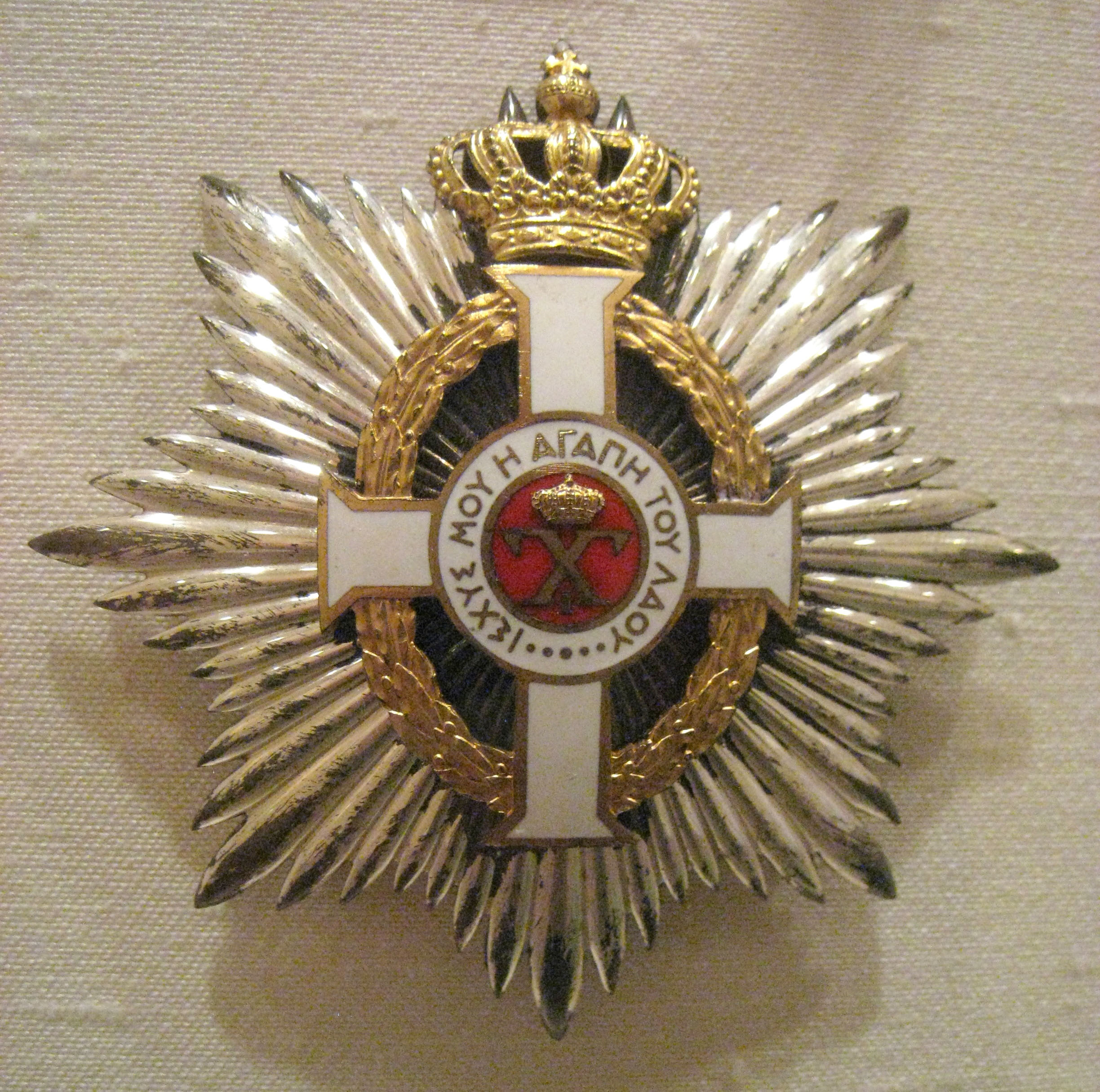 Order of George I of Greece (rank of Commander). Presented to Ambassador Angier Biddle Duke, and now on display in the Washington Duke Inn, Durham, North Carolina, USA.